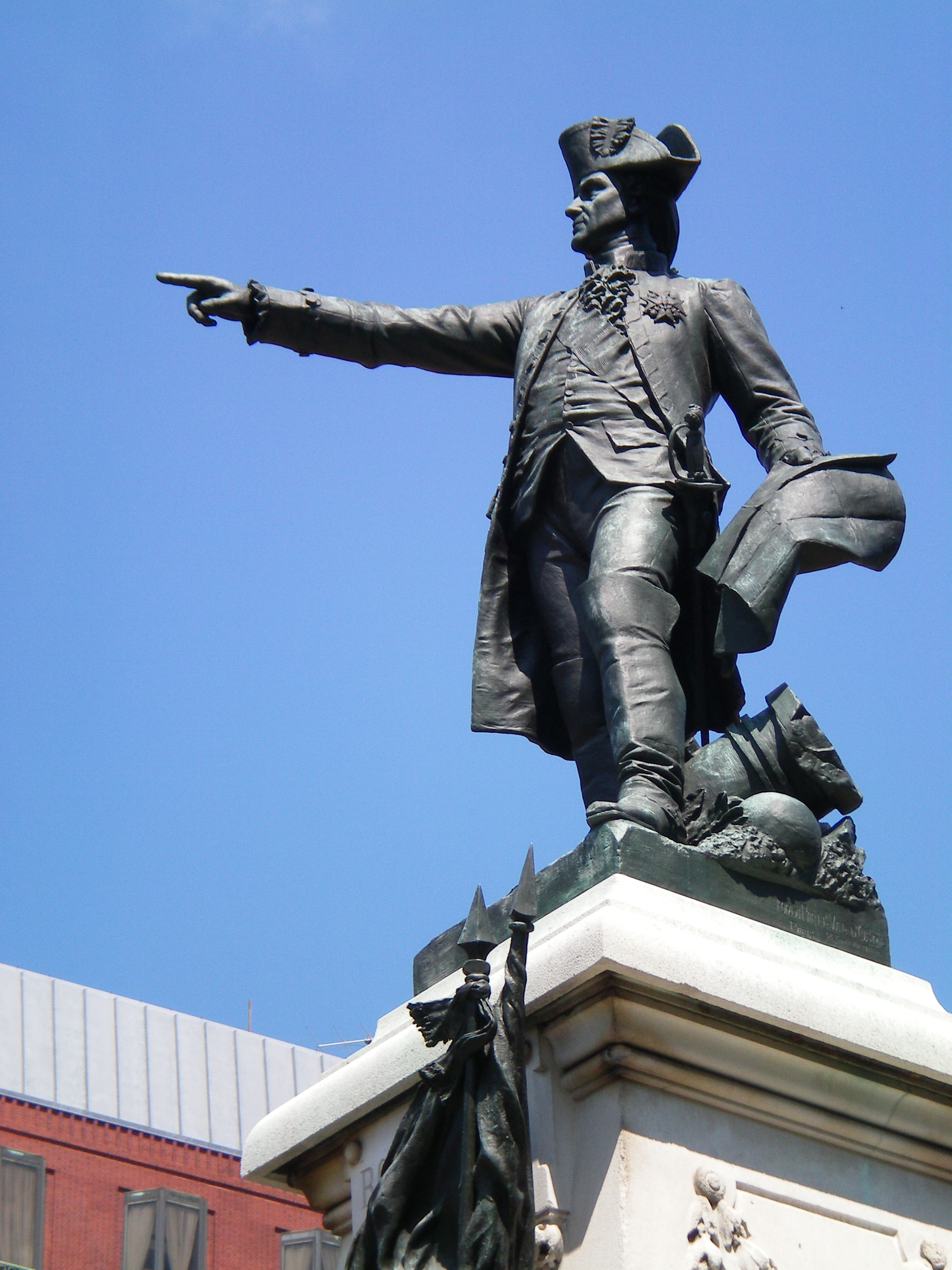 Statue of Rochambeau located on Pennsylvania Avenue across from the White House